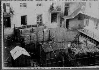 Building Sukes, Krakow 1937